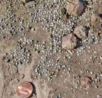 Toxic "Lead shots" covers a hiking trail near Horseshoe Lake (located off Highway 111 in Madison County which lies in the southwestern part of Illinois)